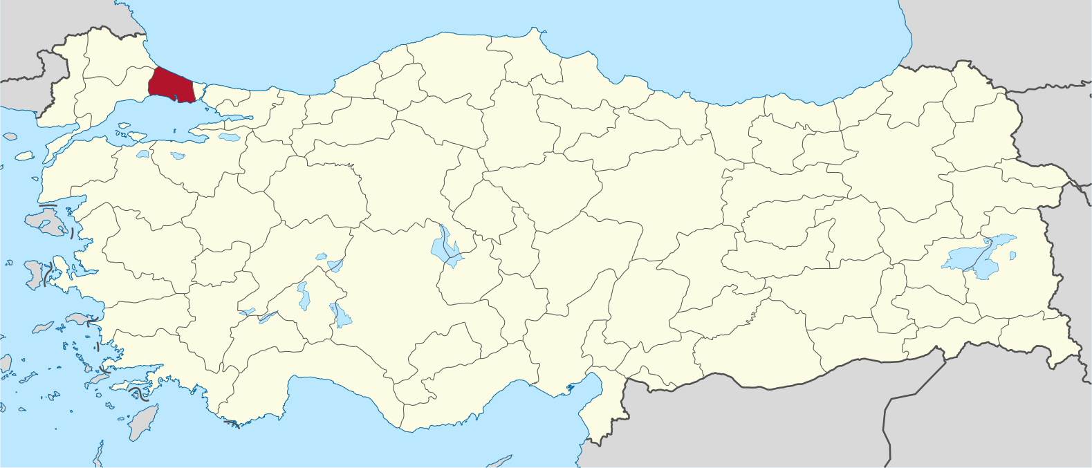 The third electoral district of İstanbul shown within Turkey